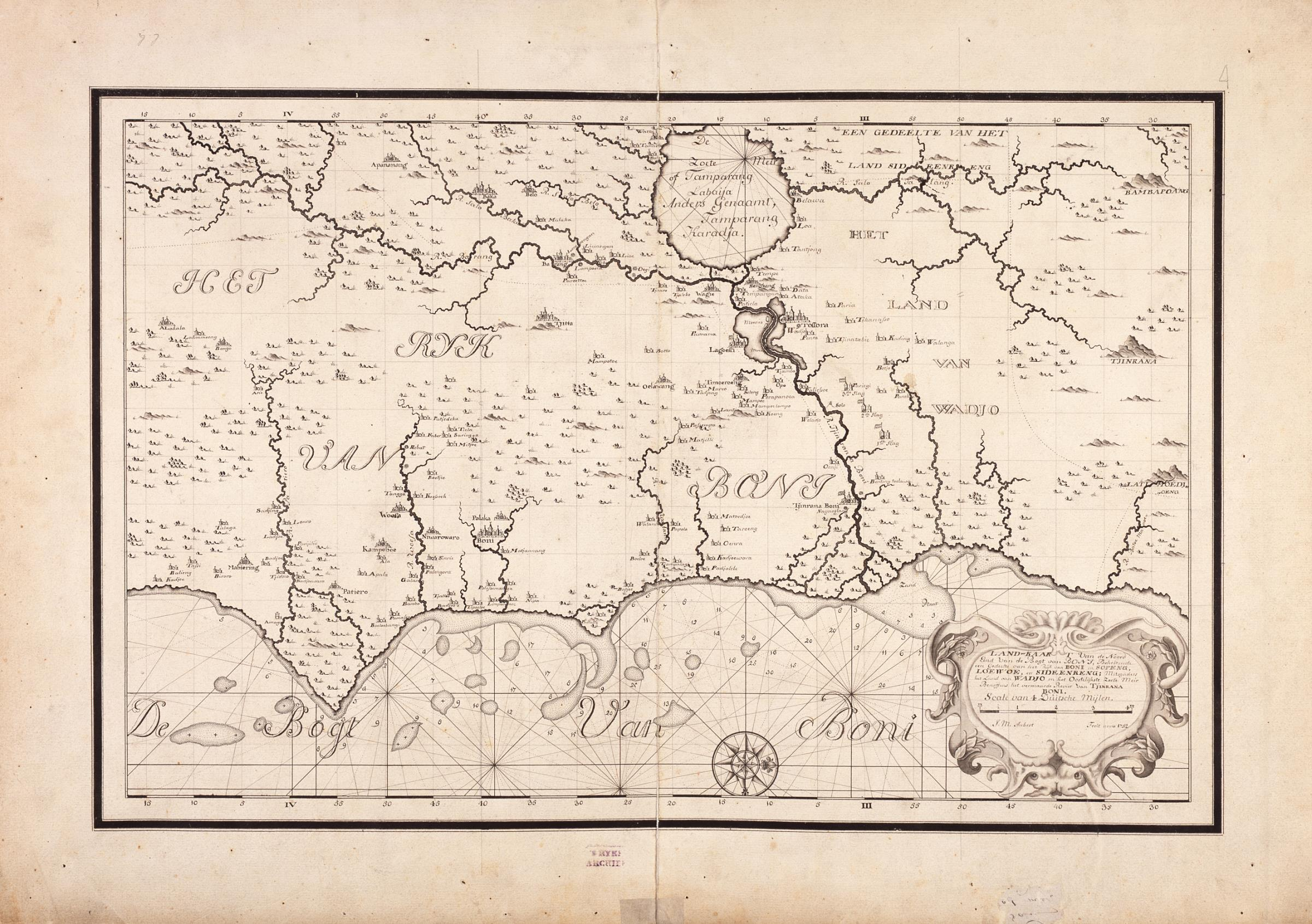 Title in the Leupe catalogue (NA): Landkaart van de Noord-Eind van de Bogt van Boni, behelzende een gedeelte van het ryk van Boni en Sopeng, Loewoe, en Sideenreng; mitsgaders het Land van Wadjo en het Oostelijkste zoete Meer beneffens het vermaarde rivier van Tjinrana Boni. Sketched on very thick paper. Notes on reverse: 906 d [in pencil].